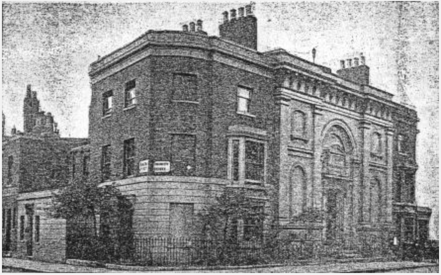 Westminster College of Chemistry and Pharmacy, Trinity Street, Southwark. The College building (formerly a chapel) is flanked by two private houses. From the Prospectus and syllabus of the Westminster College of Chemistry and Pharmacy, London, 1901.